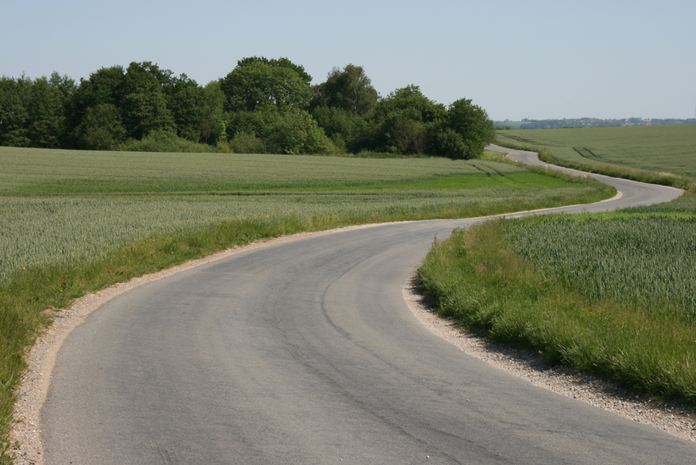 The Danish, so-called "Middle Age-roads" are very old, and many of them were used during the Middle Ages. They are caracterized by their winding course.